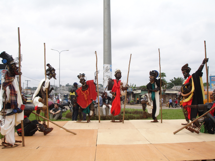 Sud Salon Urbain de Douala, Douala, December 2007 organised by doual'art in collaboration with iStrike Foundation. Photos by Kamiel Verschuren.